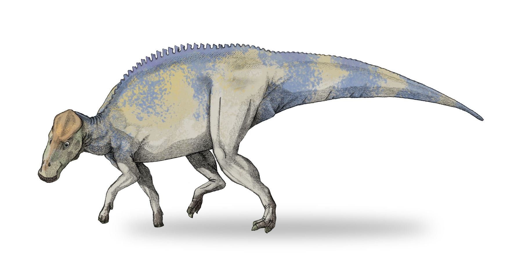 drawing by me user debivort 04.07